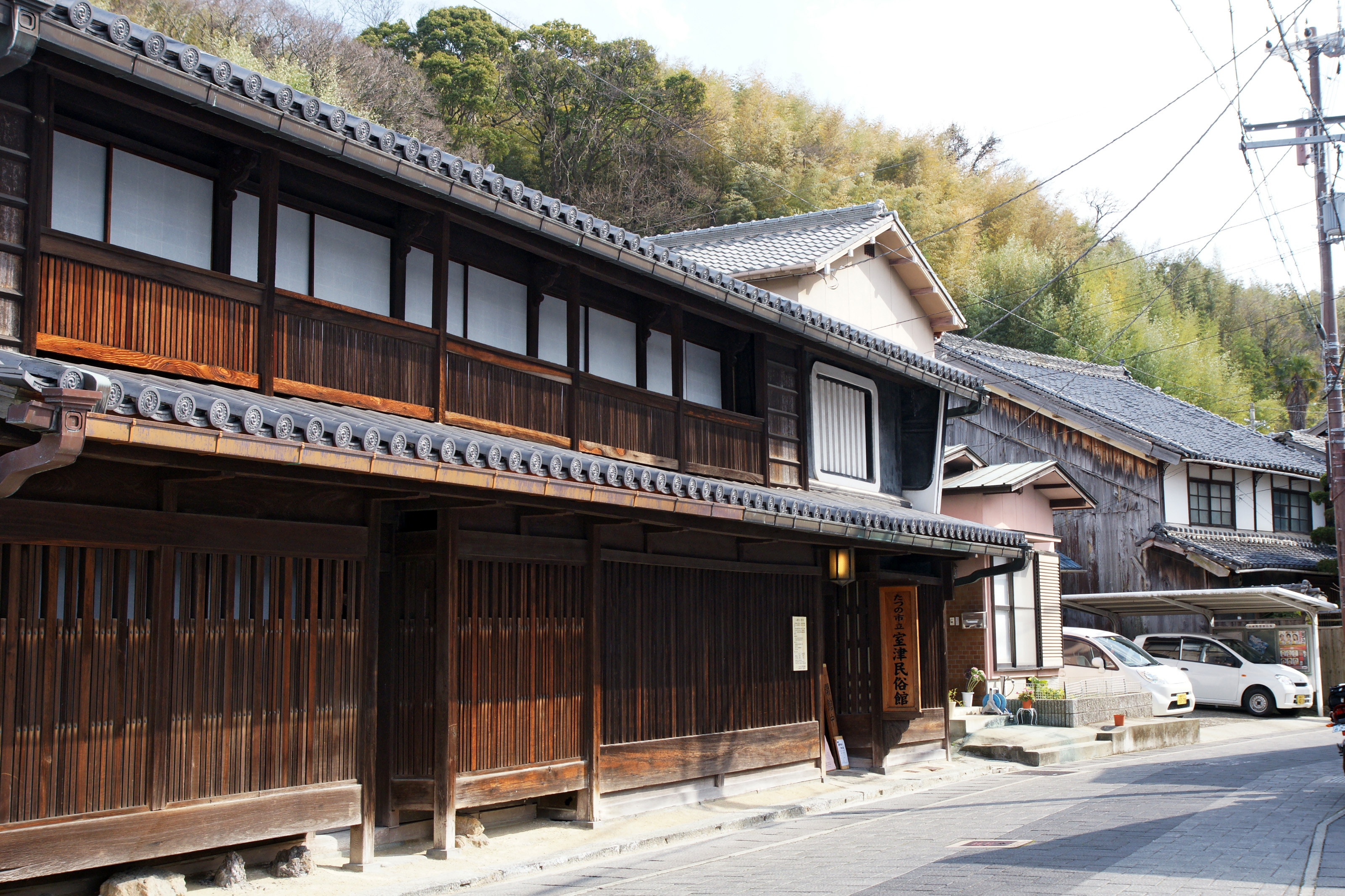 Tatsuno Municipal Murotsu Museum of Folklore in Murotsu, Tatsuno, Hyogo prefecture, Japan